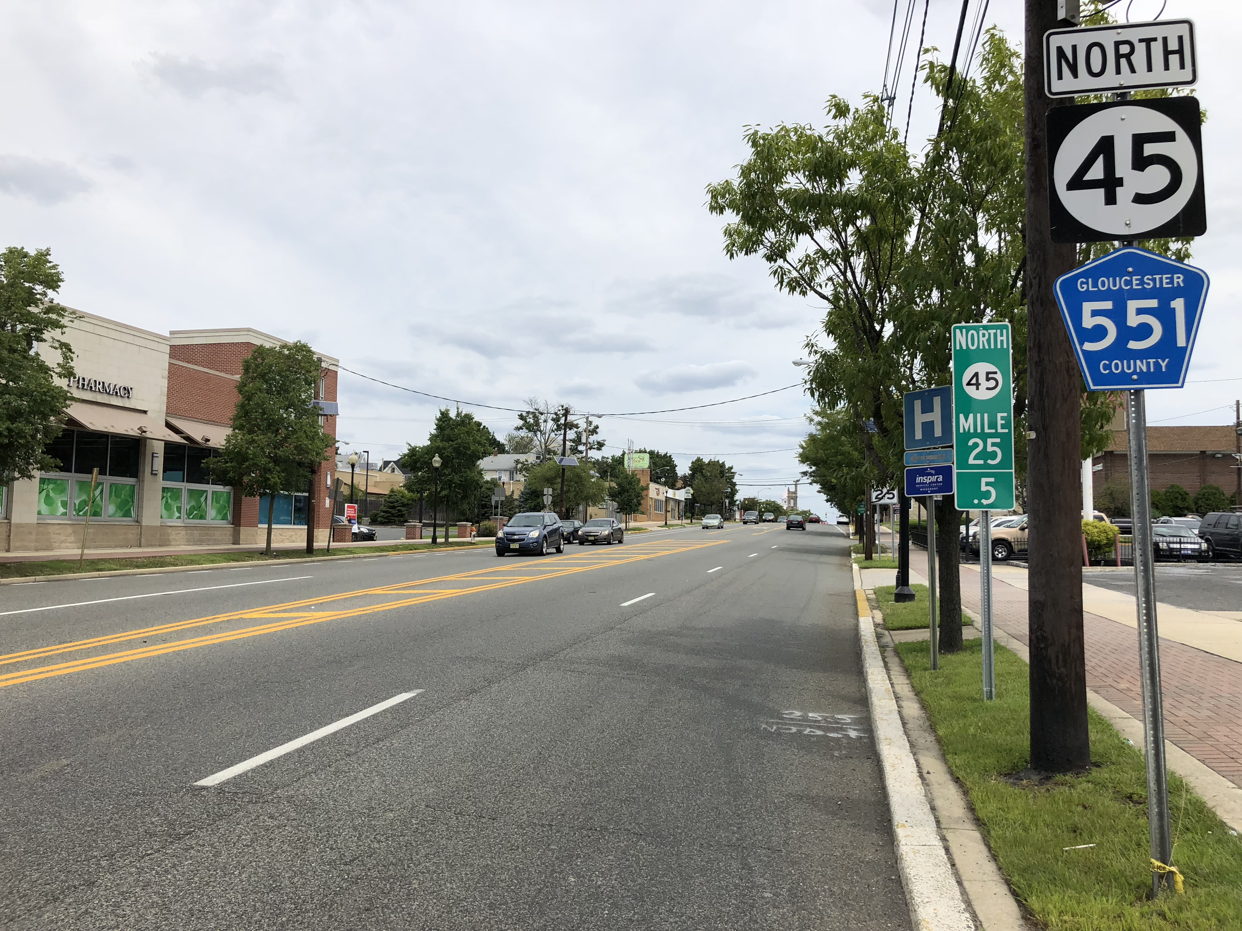 View north along New Jersey State Route 45 and Gloucester County Route 551 (Broad Street) at Salem Avenue and Carpenter Street in Woodbury, Gloucester County, New Jersey